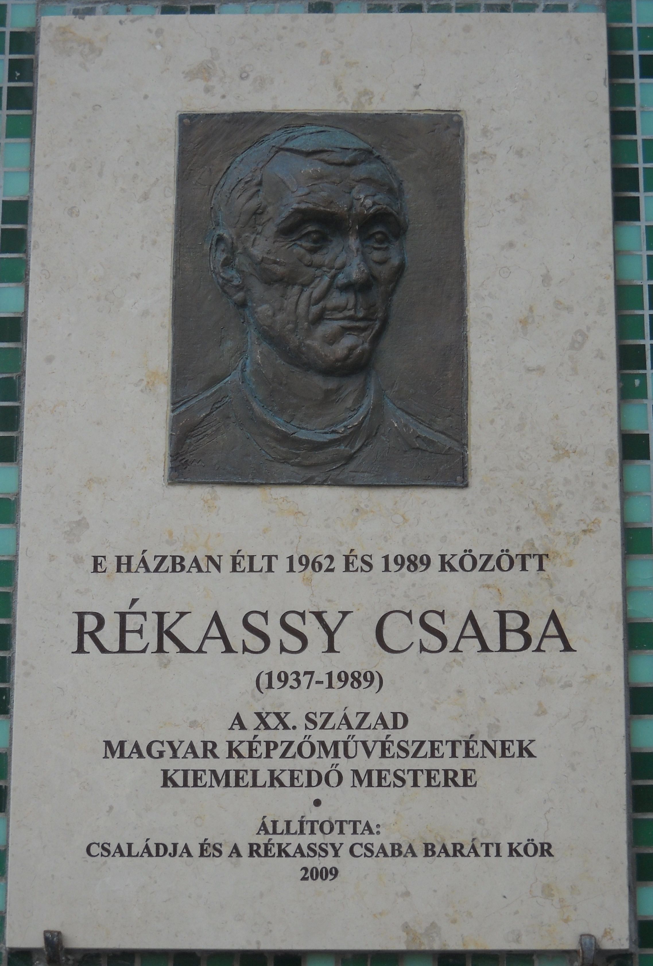 Csaba Rékassy commemorative plaque with relief in Budapest District II, Margit Boulevard No 50-52